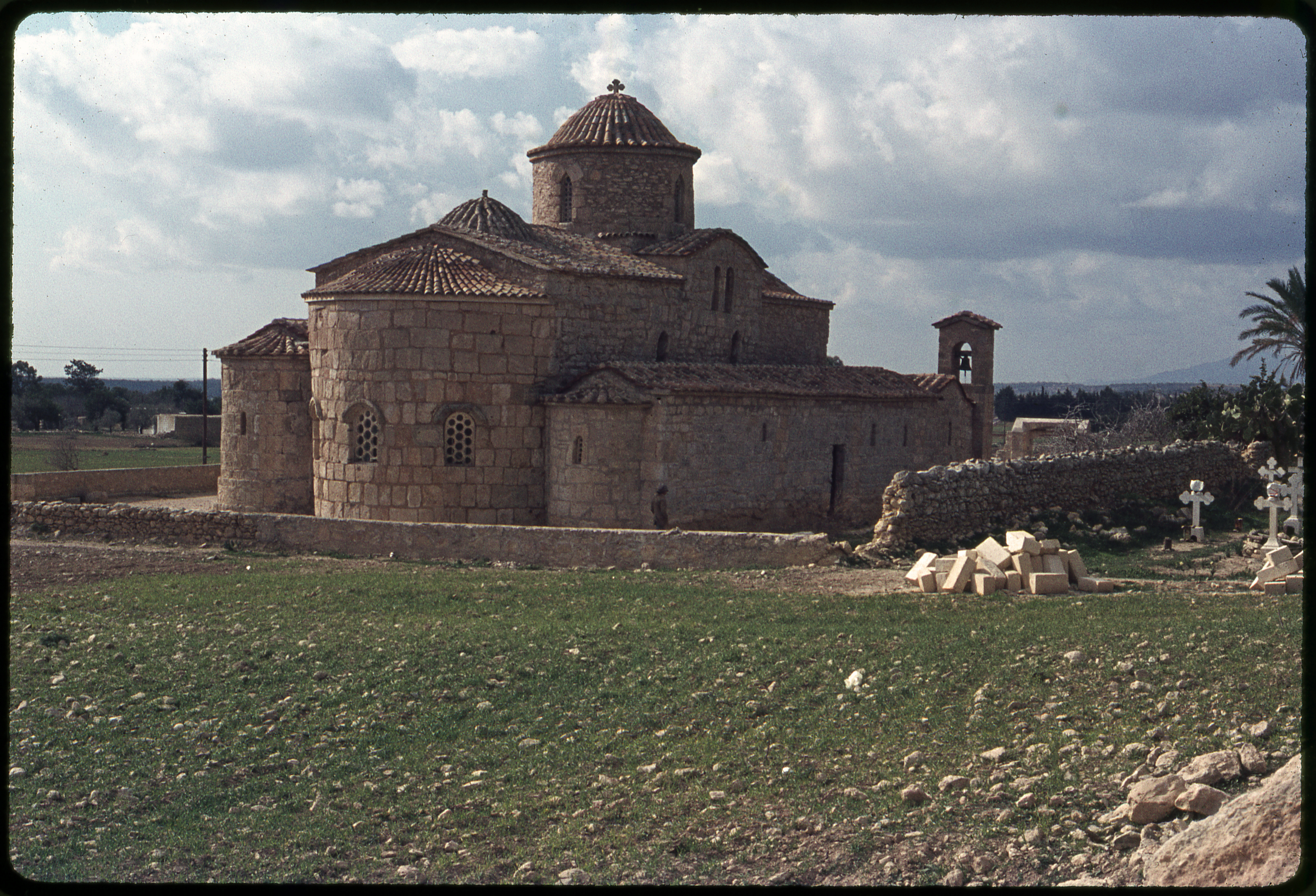 The church of Panagia Kanakaria from the north east, photographed 1973 (Agfachrome 35mm)